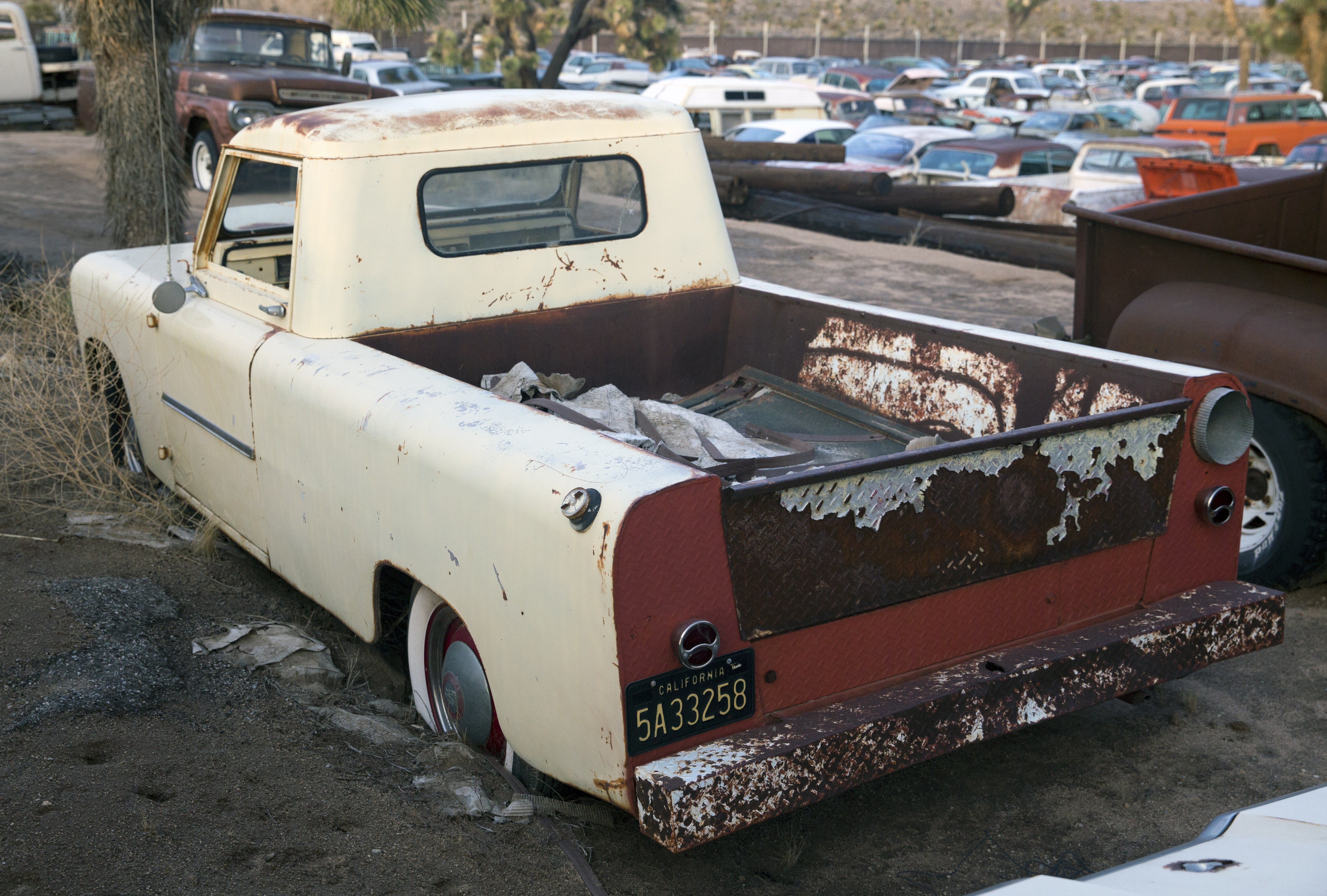 A Powell Sport Wagon pickup truck at a Yucca Valley, CA, junkyard.